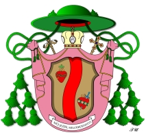 coat of arms Ján Eugen Kočiš